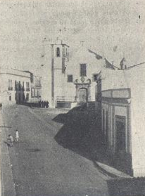 Photograph of the Main Church, in the town of Ferreira do Alentejo, in Portugal. This image was taken from the book Album Alentejano: Distrito de Beja, published in 1931, and scanned by Biblioteca Digital do Alentejo.